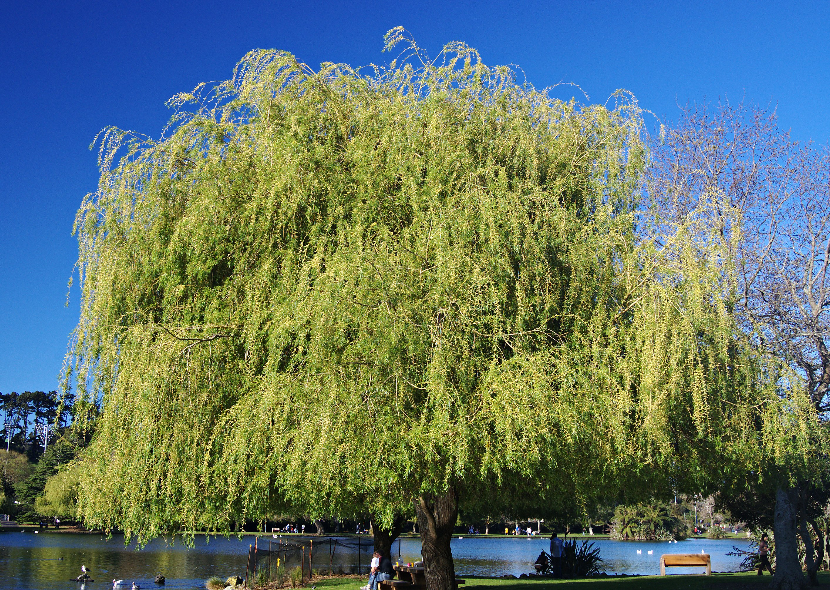 Weeping Willow, shot in Auckland, New Zealand in the Western Springs.